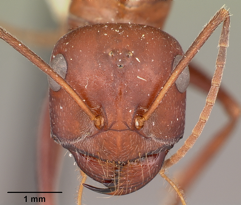 Head view of ant Cataglyphis bicolor specimen casent0104613.